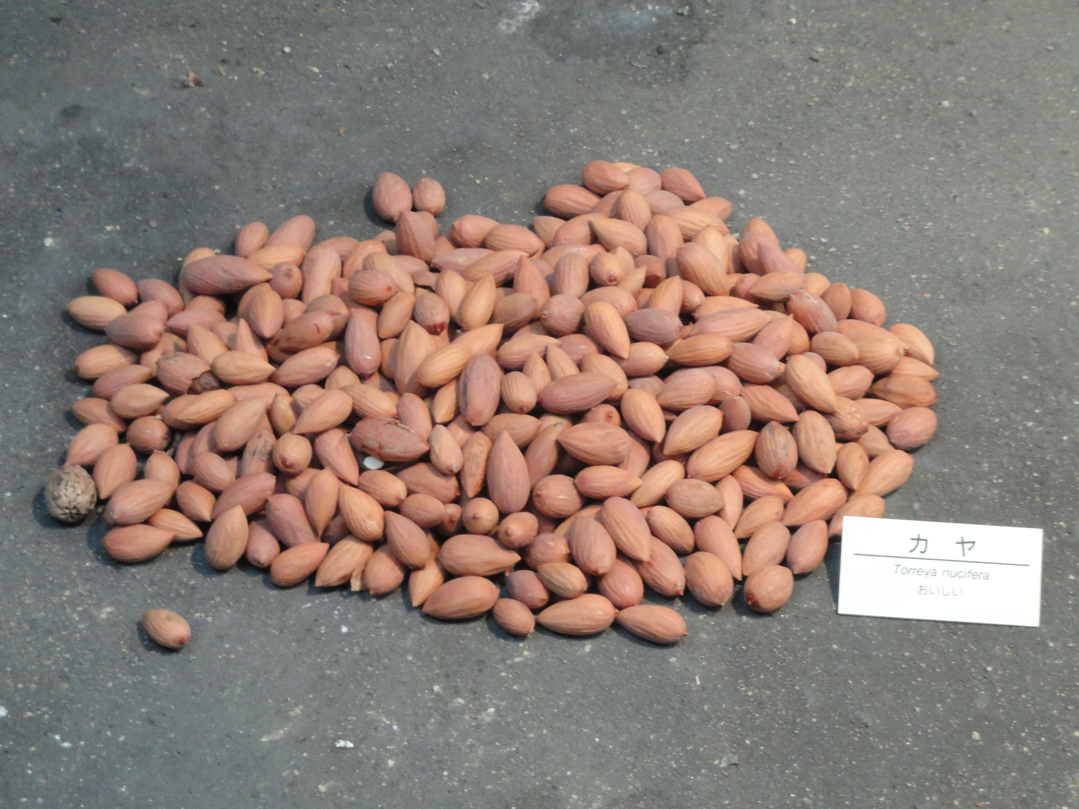 Exhibit in the Osaka Museum of Natural History, Osaka, Japan.